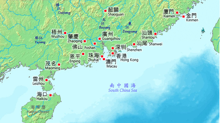 華南地圖 Map of Southern China